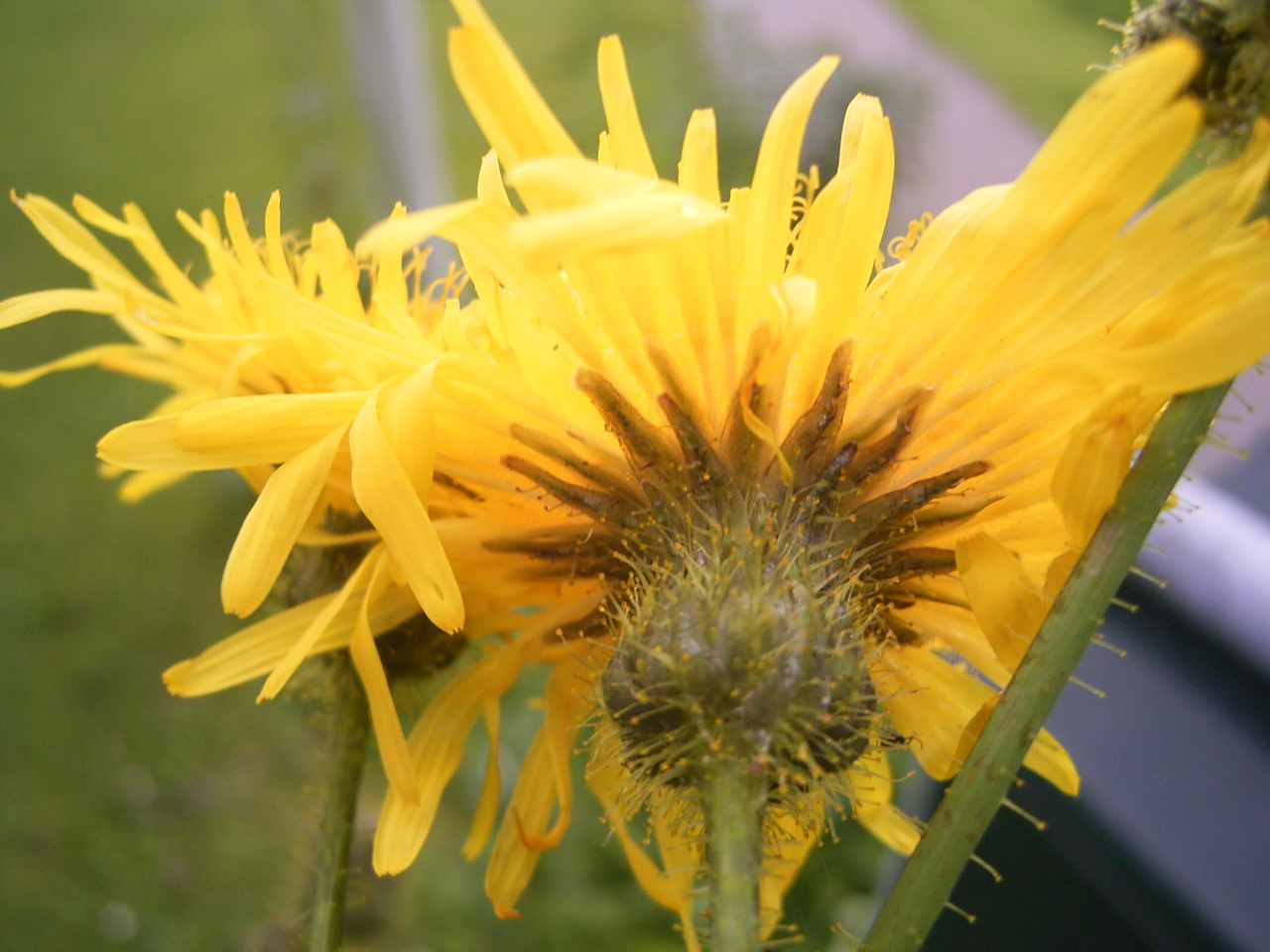 Sonchus arvensis De foto toont de omwindselbladen van de Akkermelkdistel. Ik nam deze foto vandaag bij station Mariahoeve in Den Haag. This photo shows the back of the flowerhead of Sonchus arvensis. I took this photo today in The Hague, Netherlands.